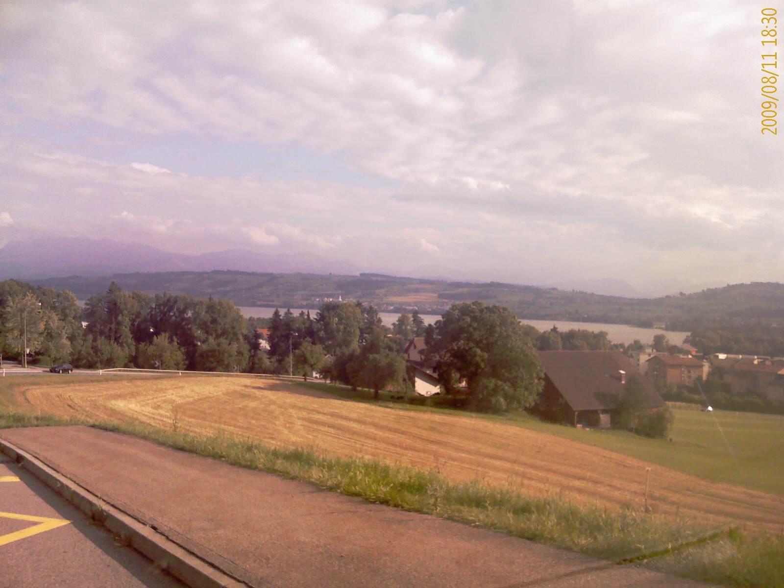 Panoramic view from bus stop Schenkon to the Lake Sempach, district Sursee, canton of Luzern, Switzerland. On the other side of Nottwil is visible.